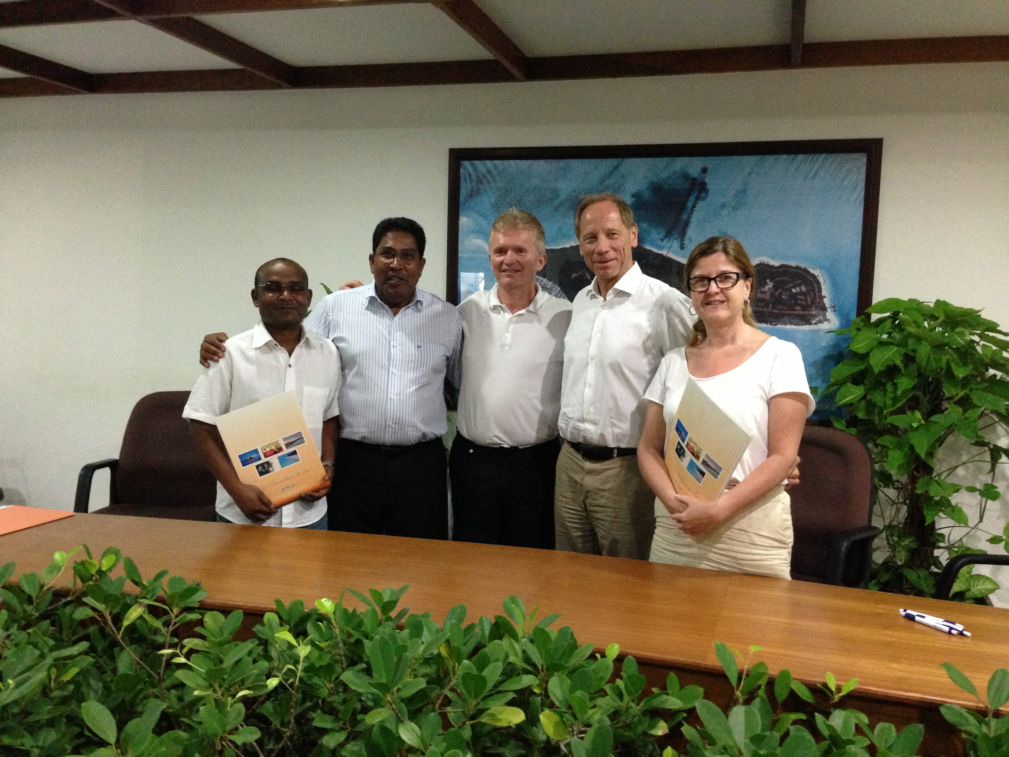 The signing ceremony for the development of a master plan for Maamigili General Hospital